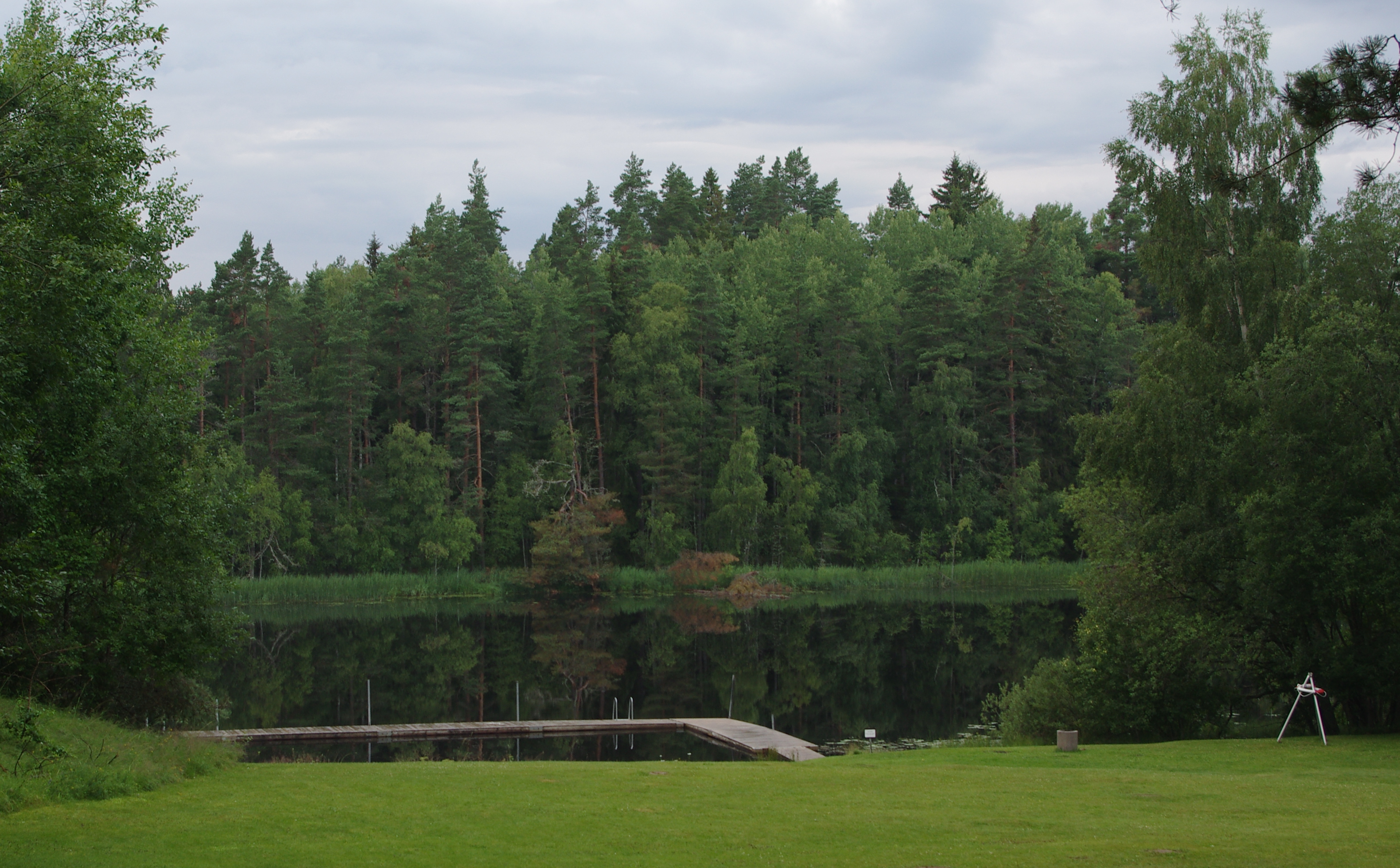 Otterstorpasjön (swedish: Lake of Otterstorp) is a small lake in Tidaholm municipality, Västergötland, Sweden.